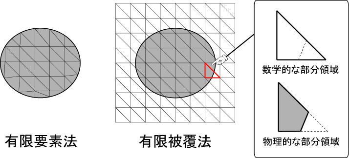 Finite Element Method and Finite Cover Method